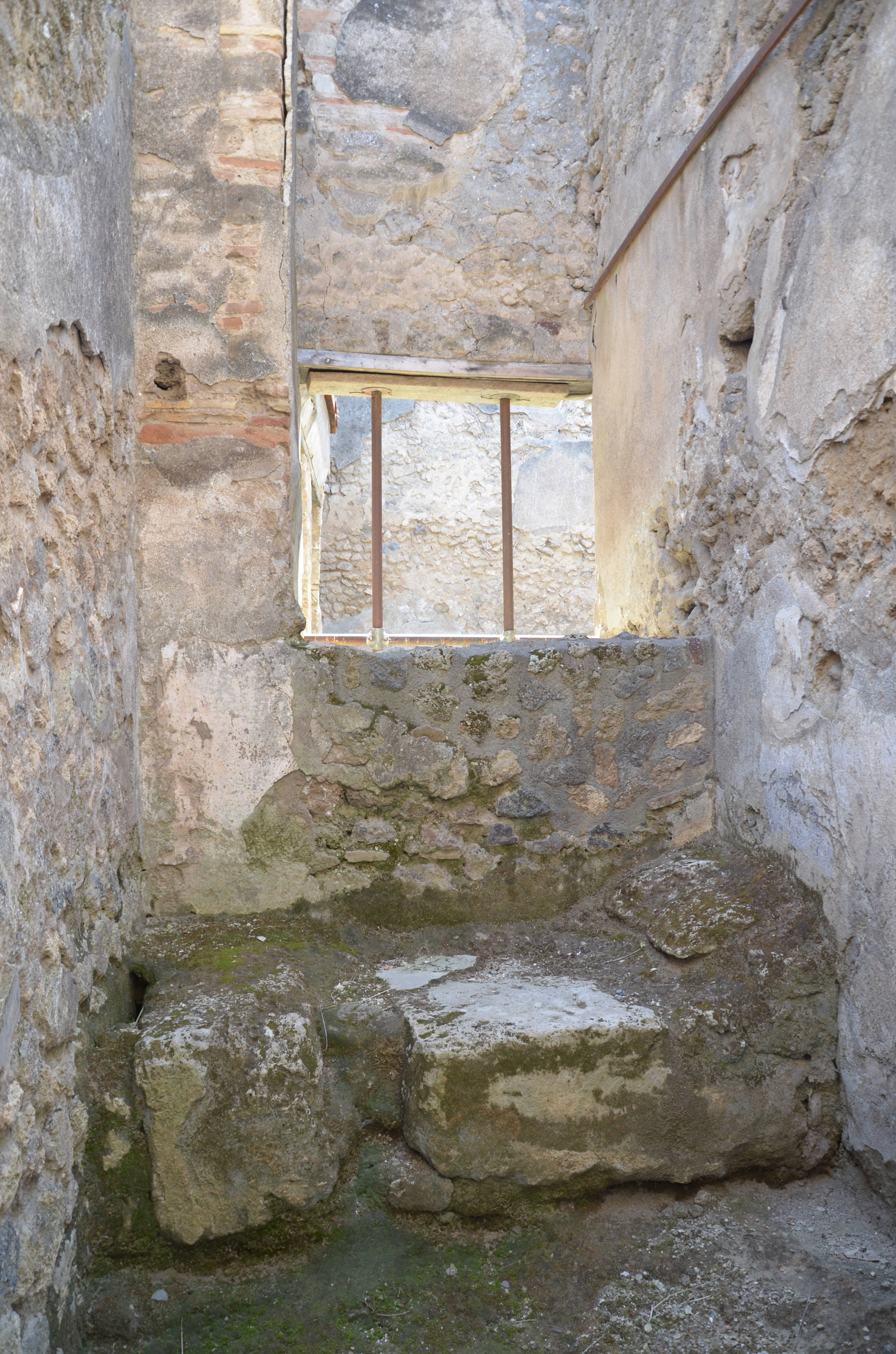 The Lupanar of Pompeii, Pompeii